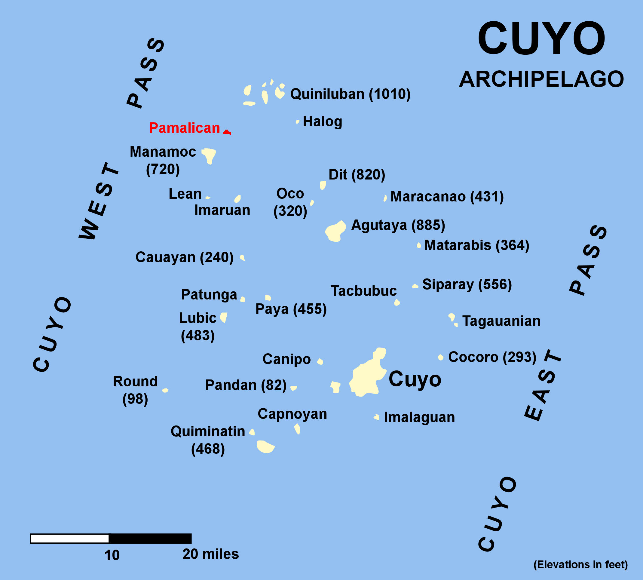 Pamalican_map